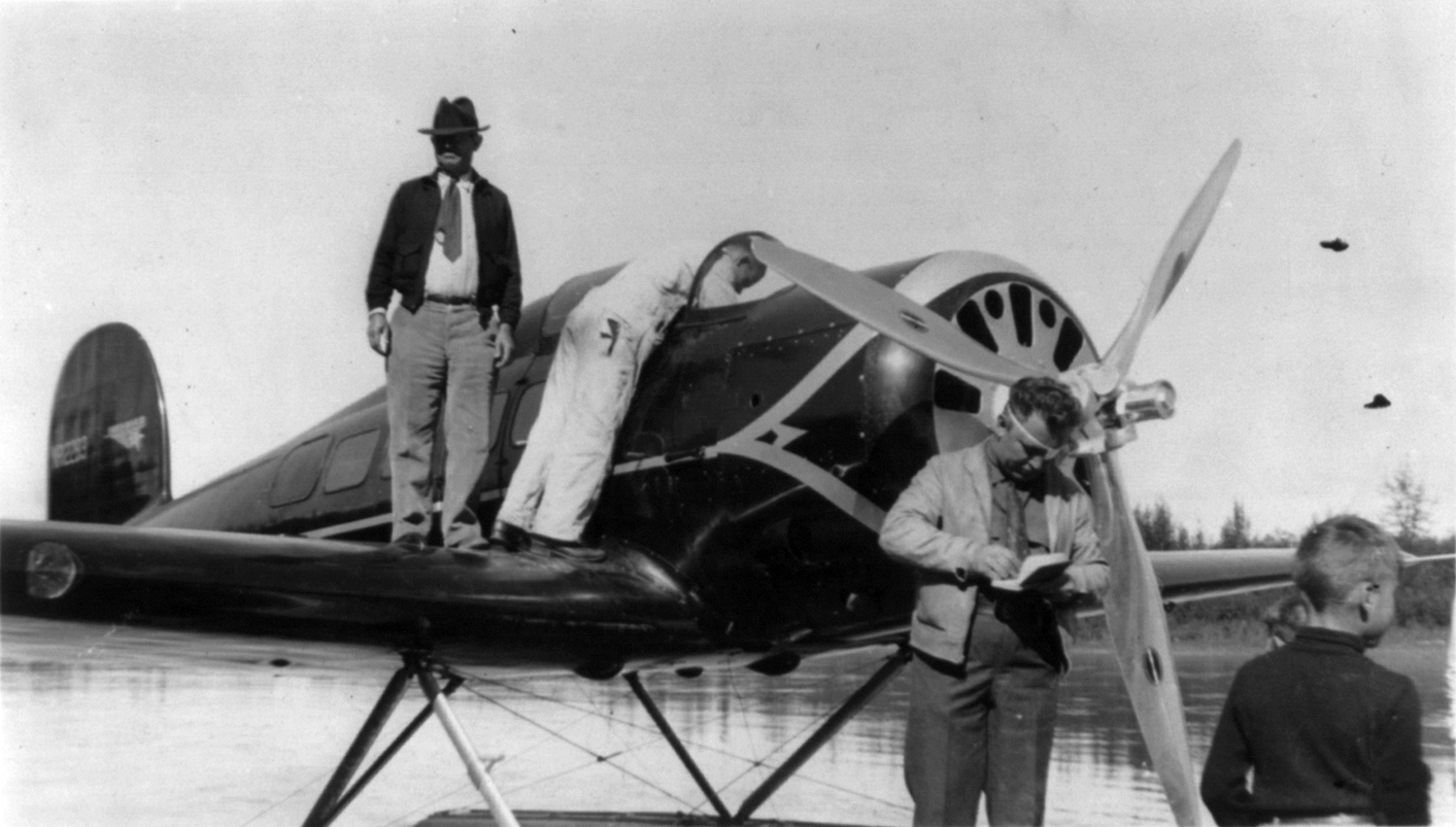 Will Rogers standing on wing of sea plane, facing slightly left; with Wiley Post at Fairbanks, Alaska; another man and a boy in photo.